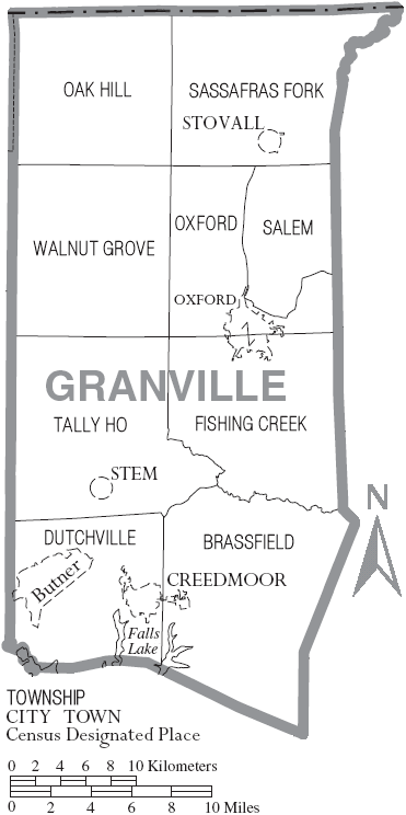 Map of Granville County, North Carolina, United States with township and municipal boundaries